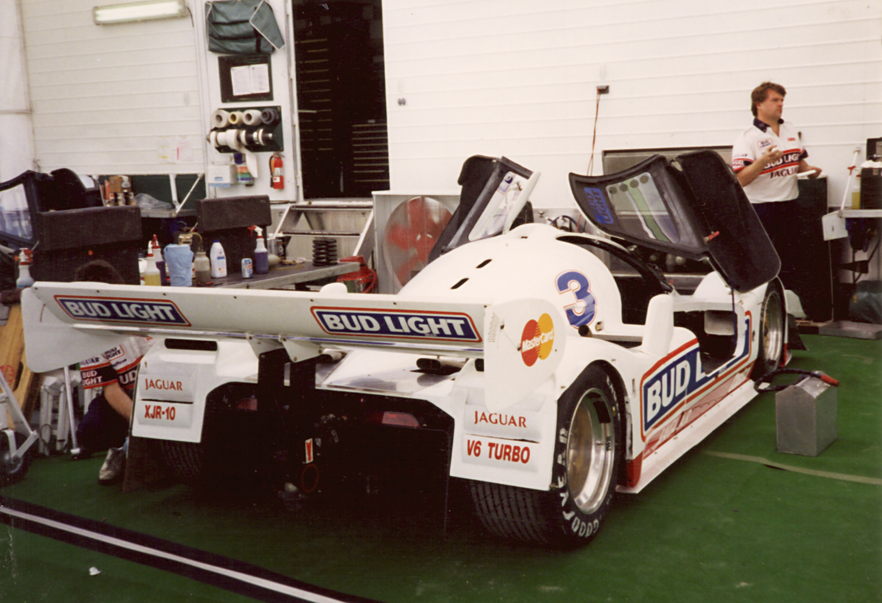 The #3 TWR Bud Light Jaguar XJR-10 driven by Raul Boesel, in the paddock the day before the 1991 IMSA West Palm Beach Grand Prix. Photo taken with a point-and-shoot 35mm film camera (unknown model and film).